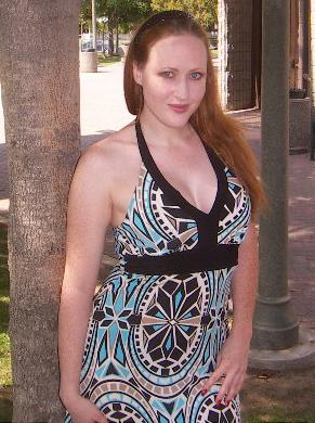 Julie Simone at Beverly Hills Park, August 13, 2007